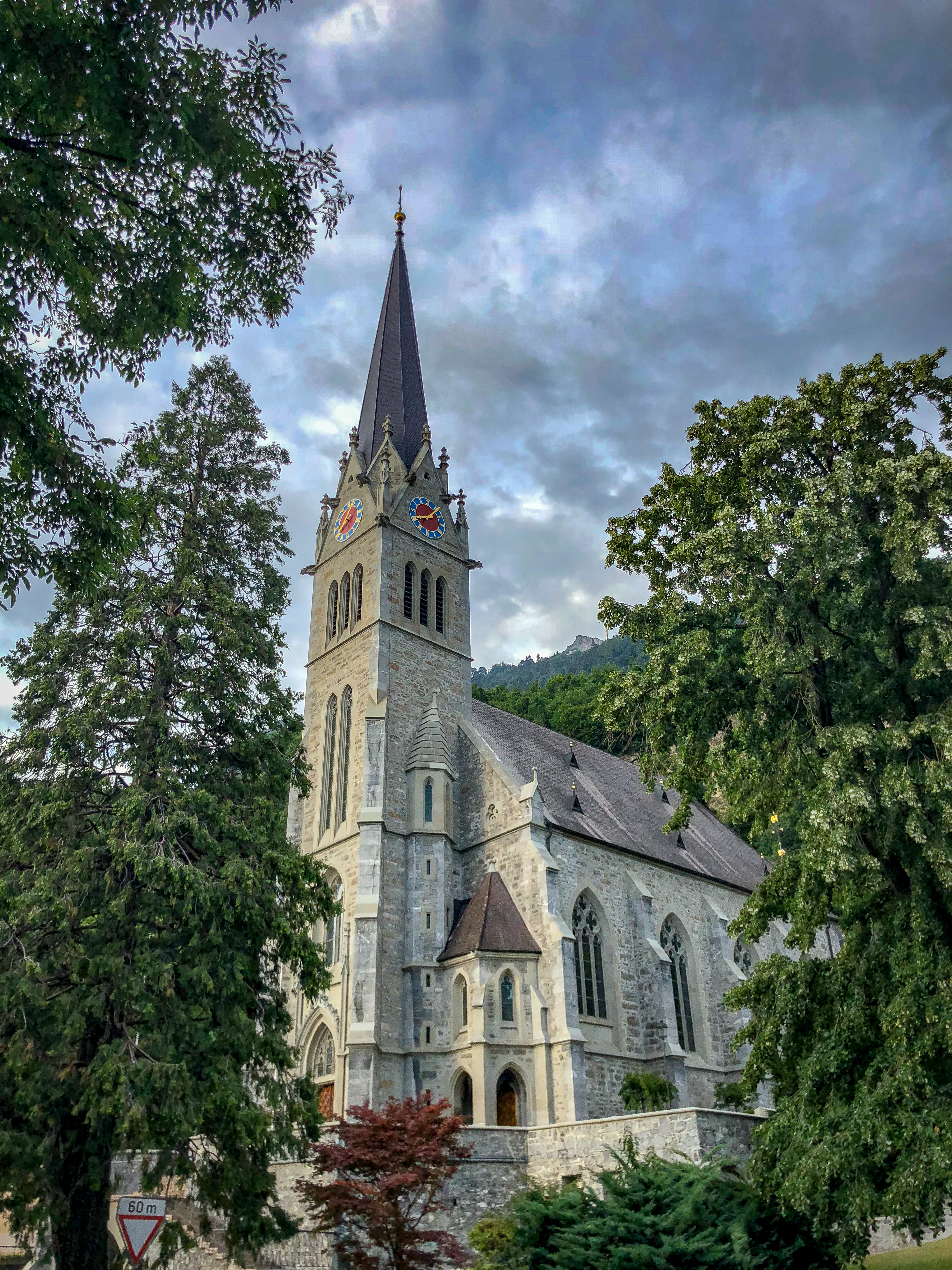 Vaduz Cathedral in Vaduz, Liechtenstein